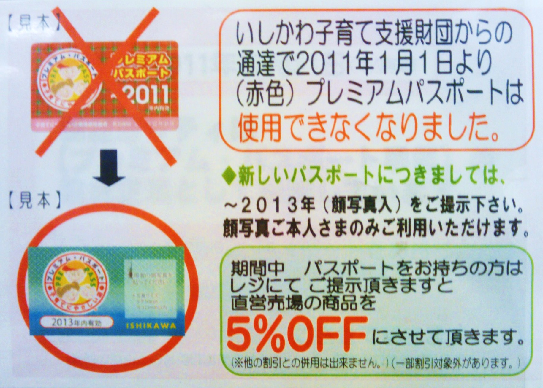 'Premium passport' notice in Nonoichi, Ishikawa, Japan. 2011.08.14